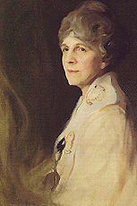 Florence Harding